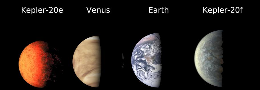 Kepler-20 planets comparison with Solar system planets